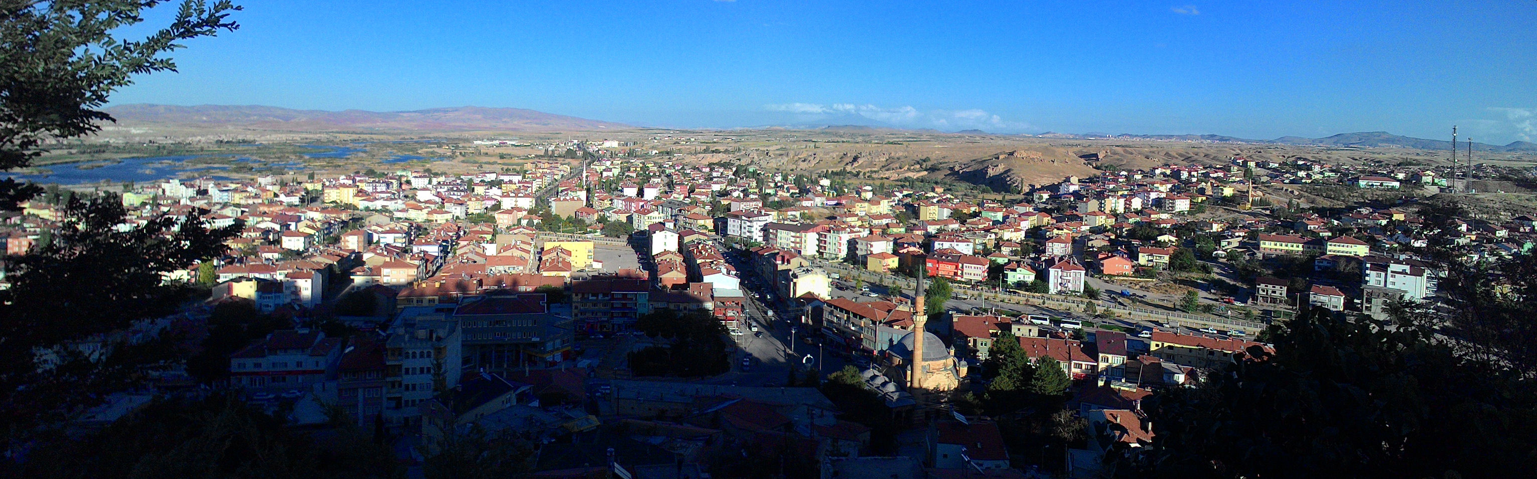 Gülşehir panorama taken from uphill hotel area near Kepez quarter